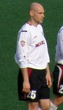 FC Moscow player Mariusz Jop (25)